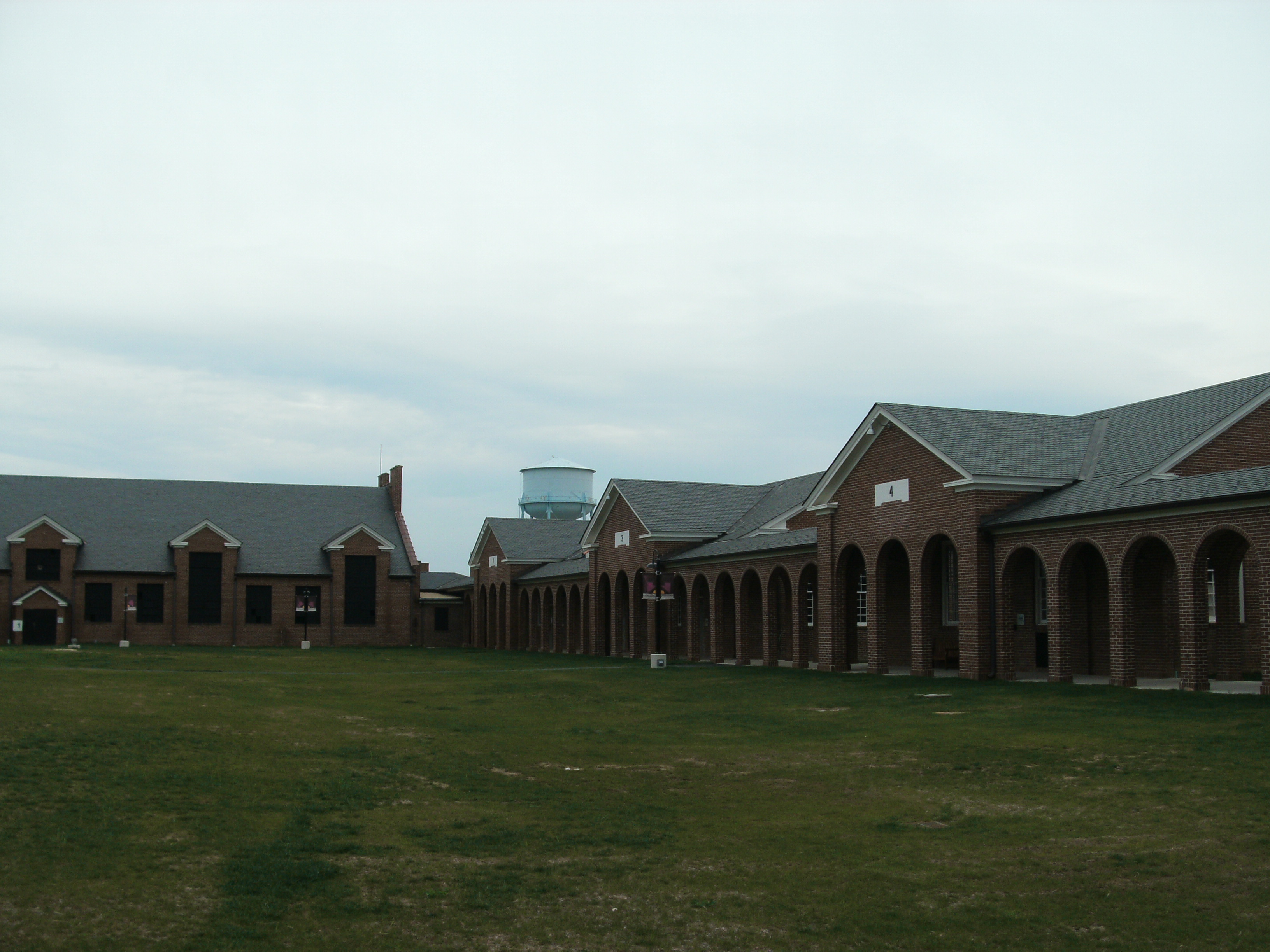 Fairfax County, VA GEDSC DIGITAL CAMERA